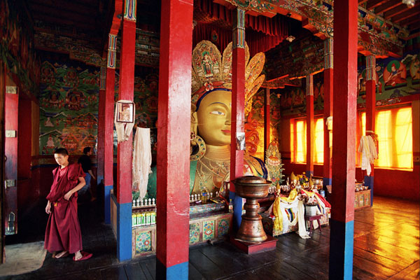 Tikse monastery, Ladakh (India)